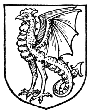 Fig. 431.—Cockatrice.